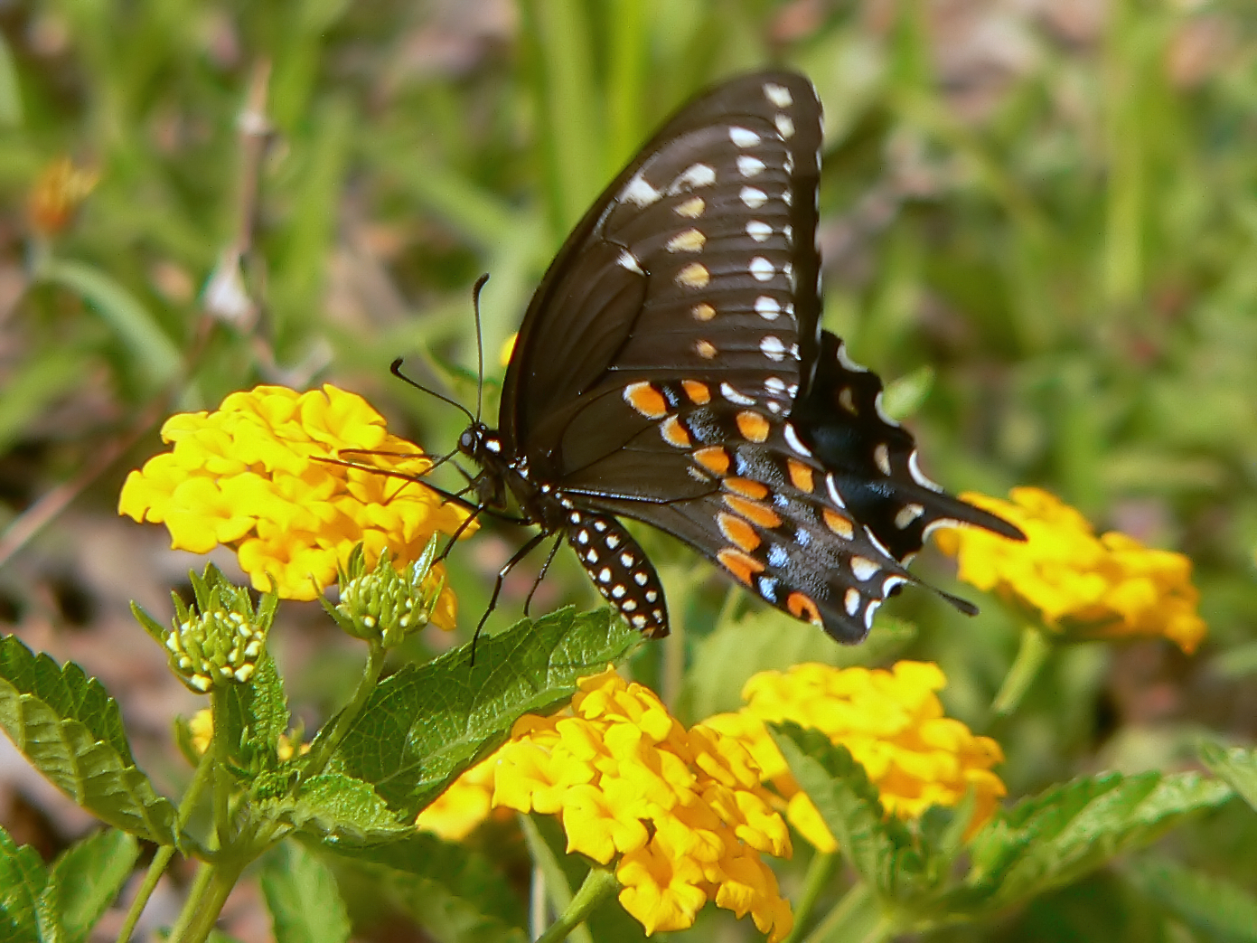 Female eastern black swallowtail (Papilio polyxenes) - ventral view. Image cropped and noise reduction.